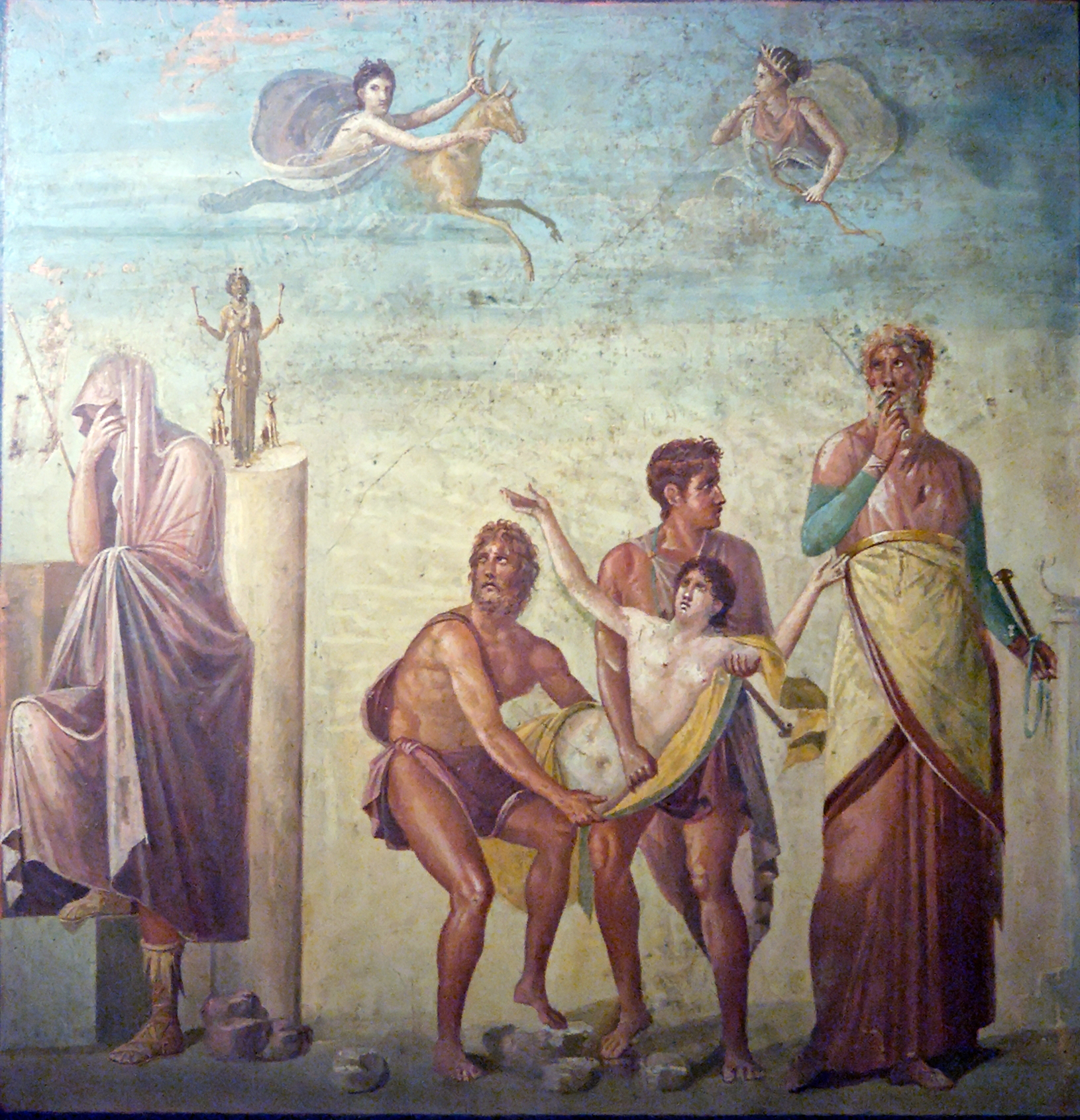 Iphigeneia carried to the sacrifice (centre) while the seer Calchas (on the right) watches on and Agamemnon (on the left) covers his head in sign of lamentation. In the sky, Artemis appears with a hind which will be substituted for the young girl.